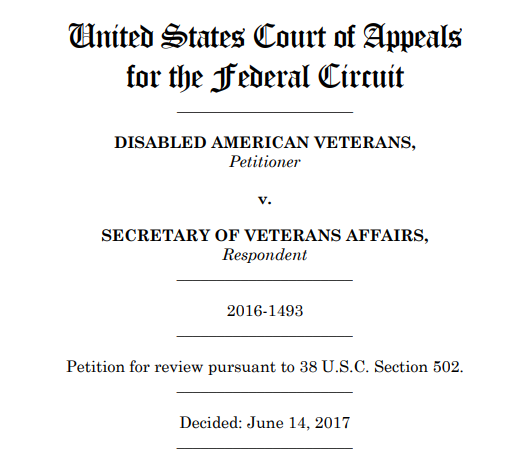 First page of the Court's decision in the above referenced case.